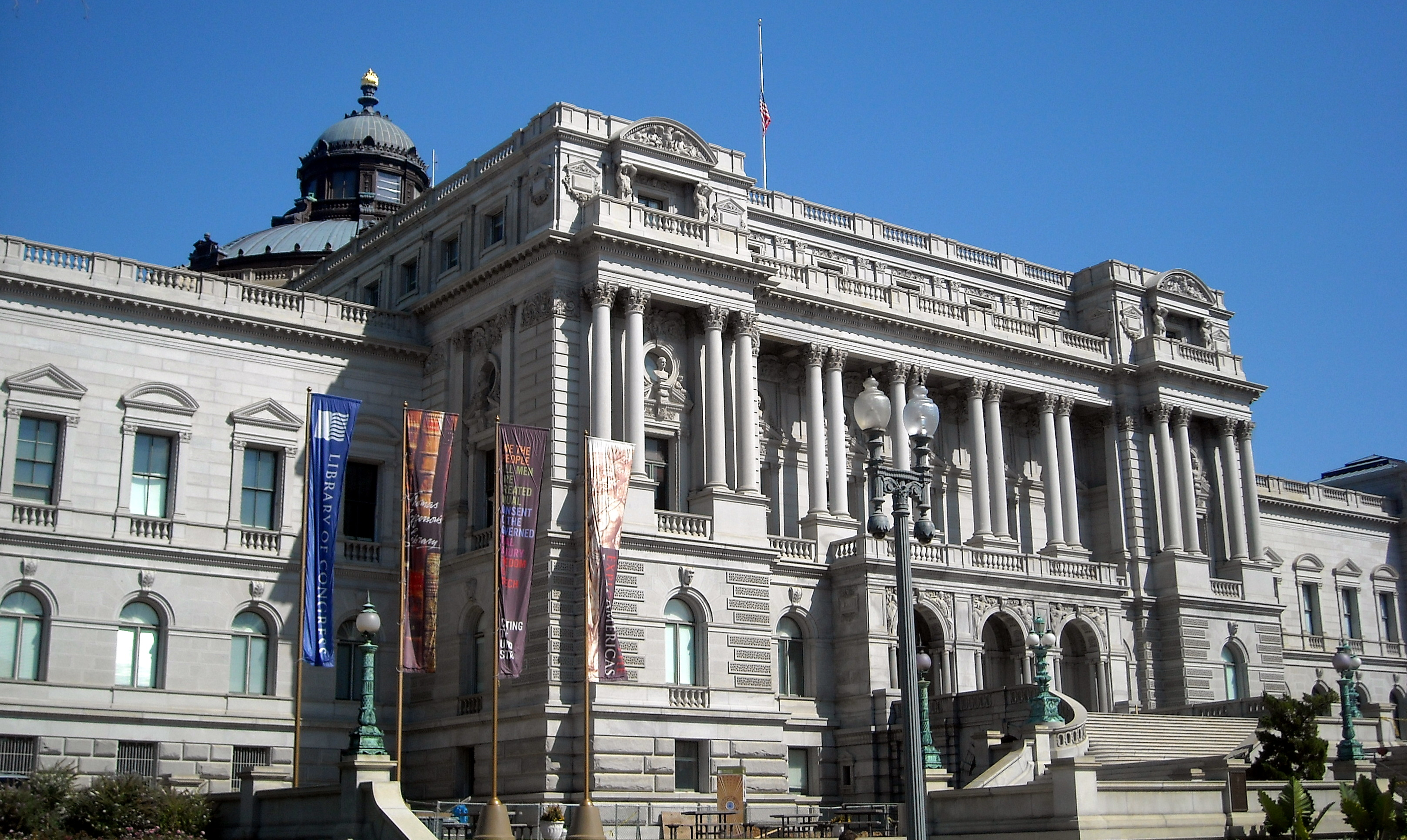 The Library of Congress, Thomas Jefferson Building. Hi Indiana University.